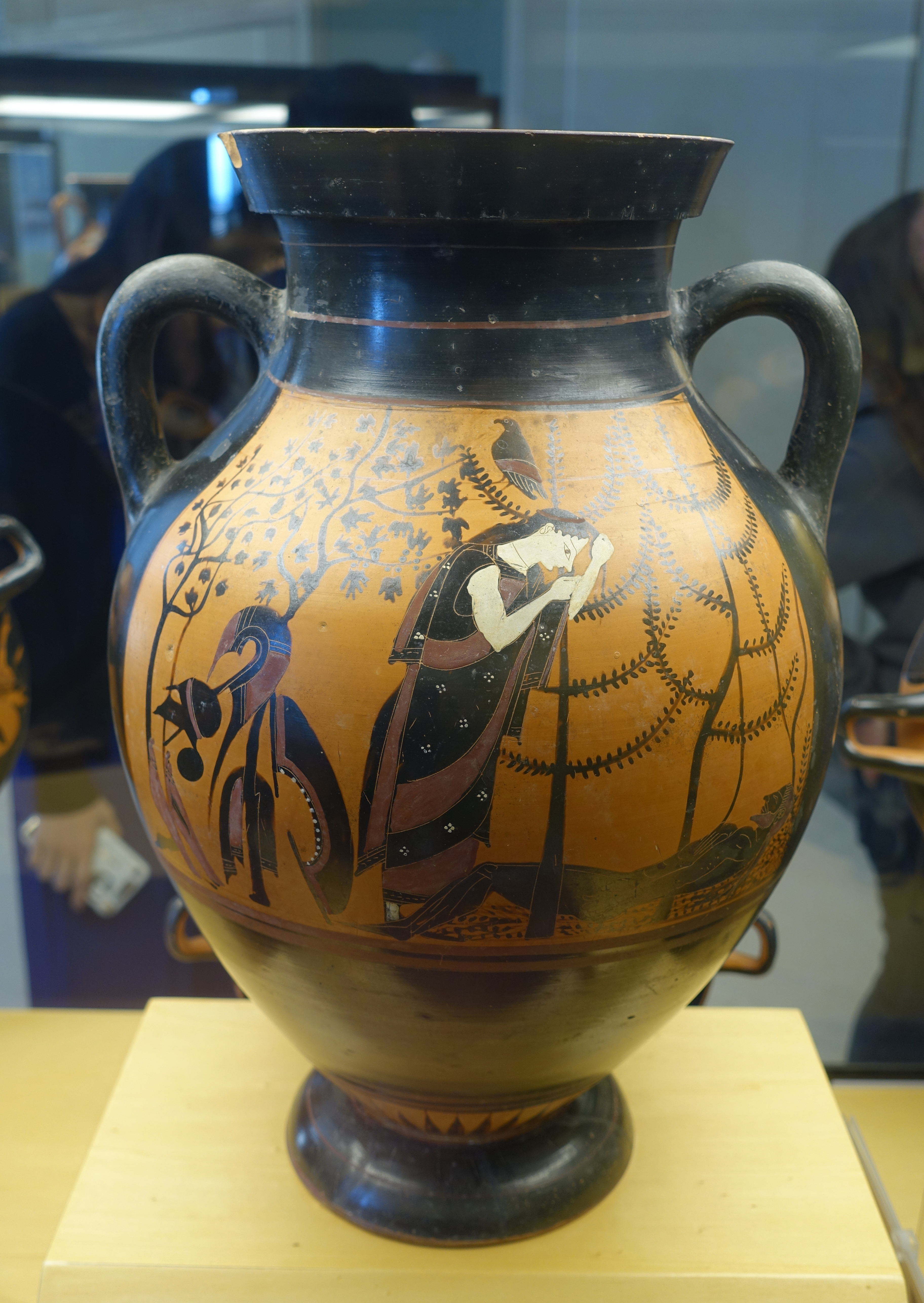 Exhibit in the Museo Gregoriano Etrusco - Vatican Museums.